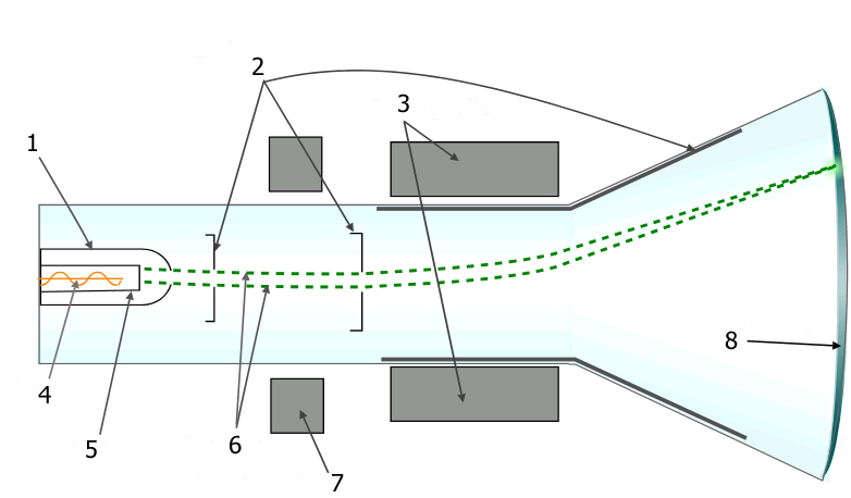 Diagram of a CRT tube, with numbers instead of labels